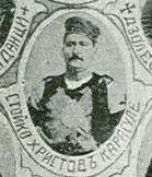 Portrait of IMARO member Stoyko Hristov from Karasule